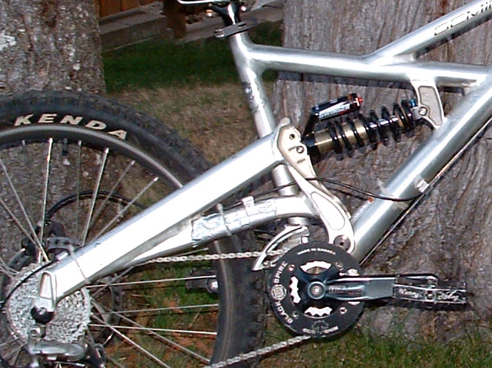 I took this picture myself, to illustrate the article on bicycle suspension's description of a single pivot mountain bike suspension design. It is my own bicycle, a 2004 Cannondale Gemini. In uploading this picture, I am replacing another similar picture, which I believe to be of a less-typical single-pivot bike.